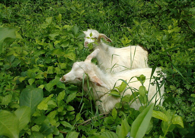 The domestic goats